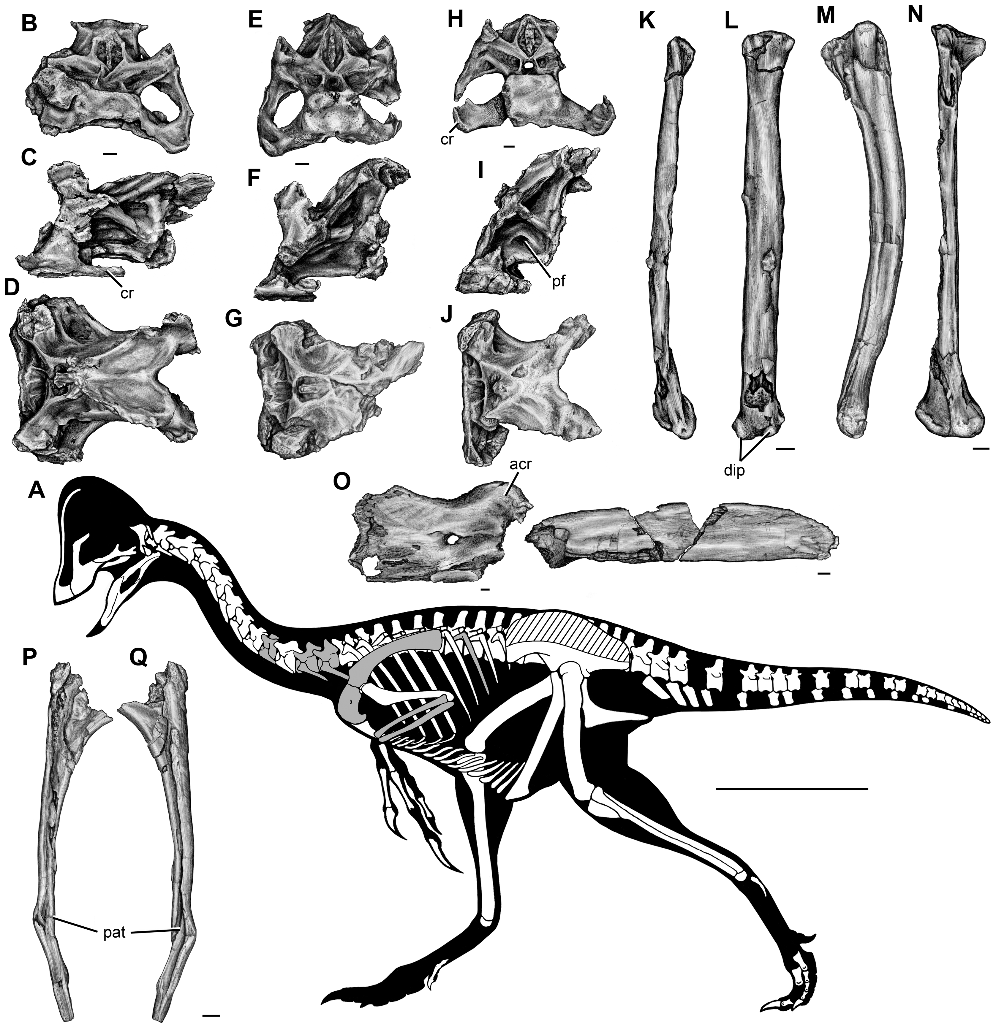 MRF 319, a partial oviraptorosaurian skeleton referred to Anzu wyliei. (A) Skeletal reconstruction in left lateral view, with preserved bones in gray and bones represented in other Anzu specimens in white (hatching indicates heavily reconstructed portions of the ilia of CM 78001). Middle-posterior (ninth?) cervical vertebra in (B) anterior, (C) left lateral, and (D) dorsal views. Posterior (11th?) cervical vertebra in (E) anterior, (F) left lateral, and (G) dorsal views. Posterior (12th?) cervical vertebra in (H) anterior, (I) left lateral, and (J) dorsal views. Anteroposteriorly crushed left radius in lateral (K) and anterior (L) views. Mediolaterally crushed left ulna in lateral (M) and anterior (N) views. (O) Partial left scapulocoracoid in lateral view. Dorsal rib in anterior (P) and posterior (Q) views. Abbreviations: acr, acromial process; cr, cervical rib; dip, distal processes; pat, pathology; pf, pneumatic fossa. Scale bars = 50 cm in A; 1 cm in B–Q.